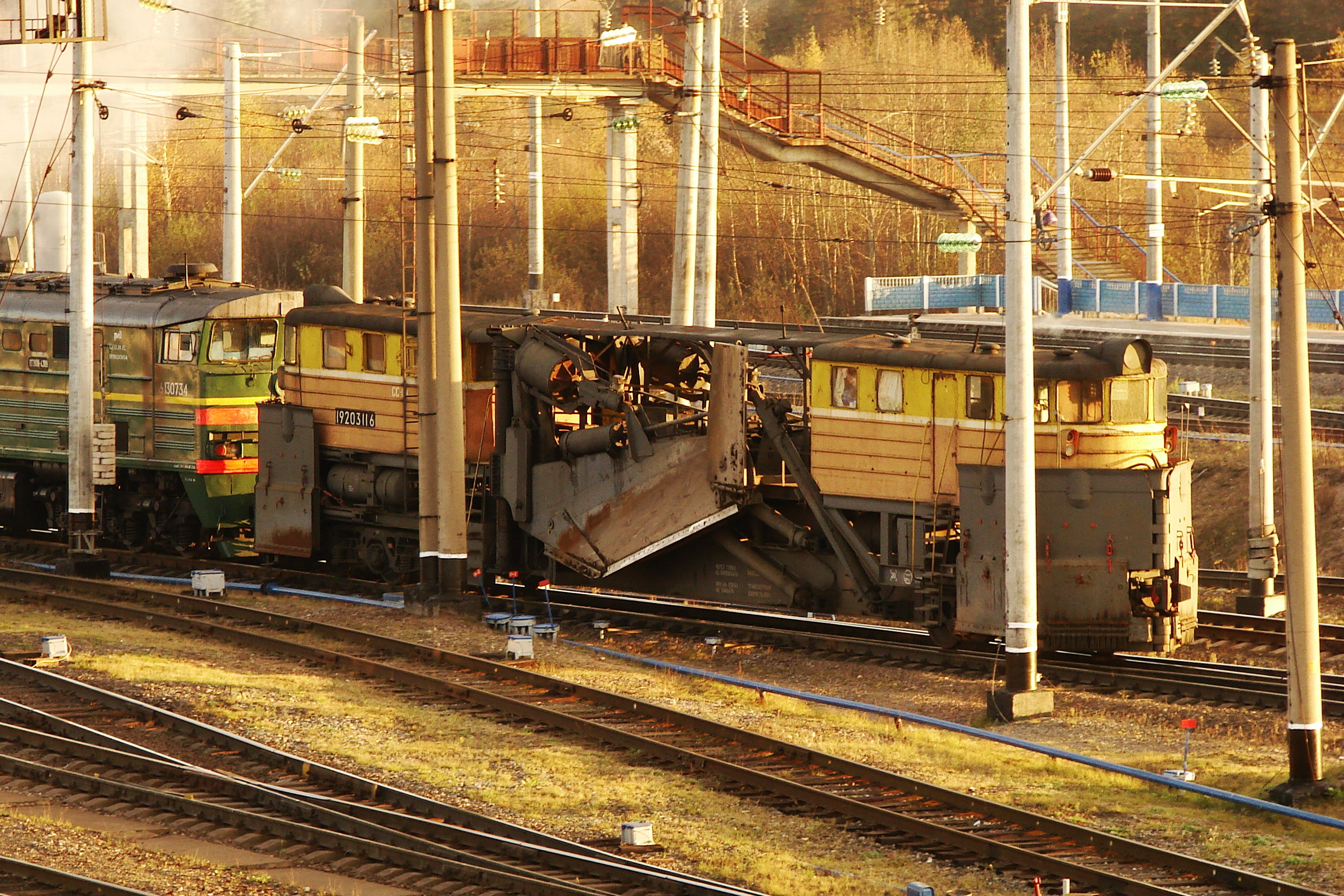 Russian Railways, snowplough SS-1M